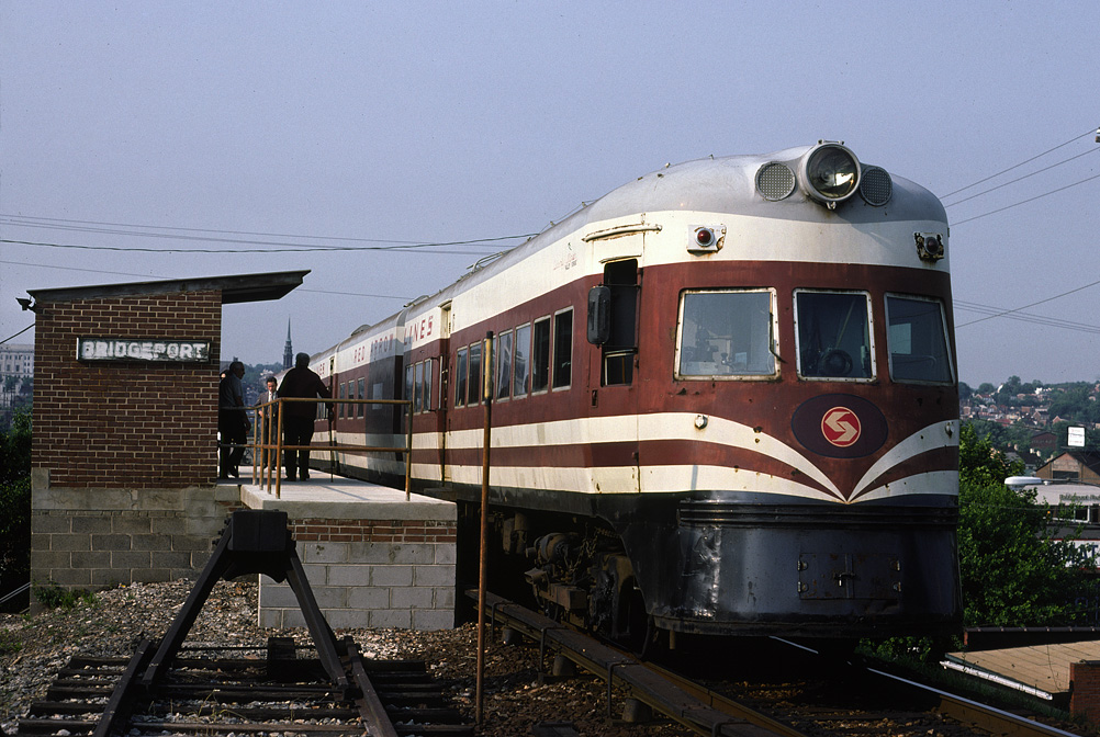 SEPTA Liberty Liner InBd Bridgeport May76xRP